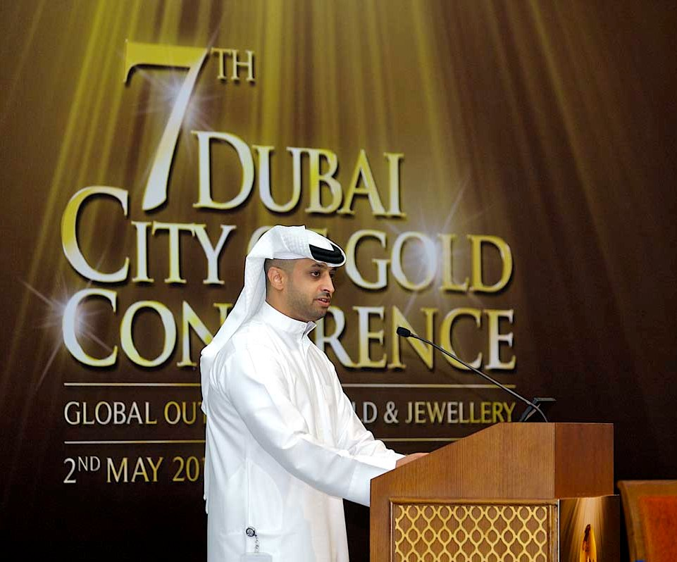 Ahmed Sultan Bin Sulayem addresses delegates at 7th City of Gold Conference